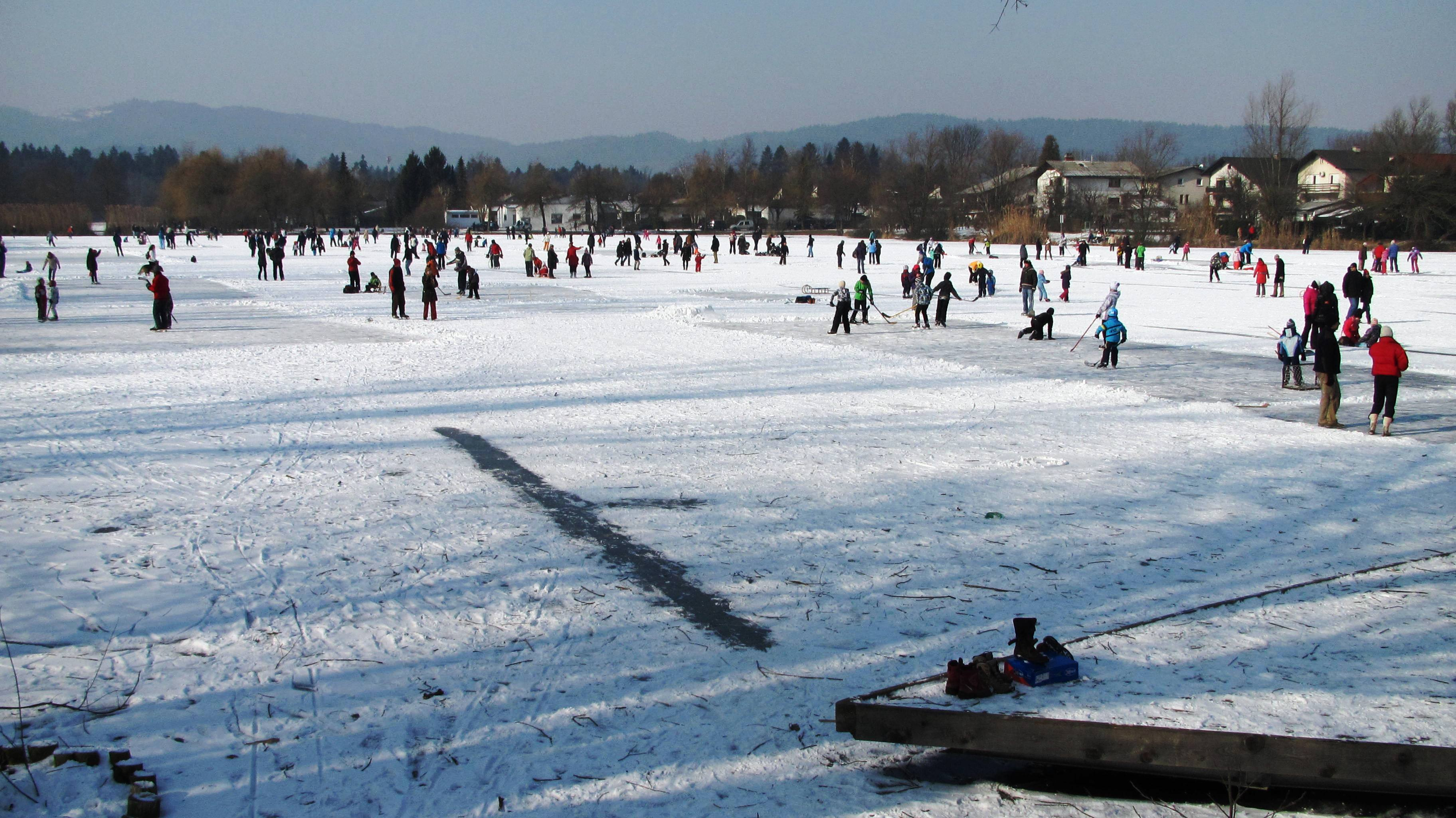 Koseze Pond, City Municipality of Ljubljana, Ljubljana, Slovenia